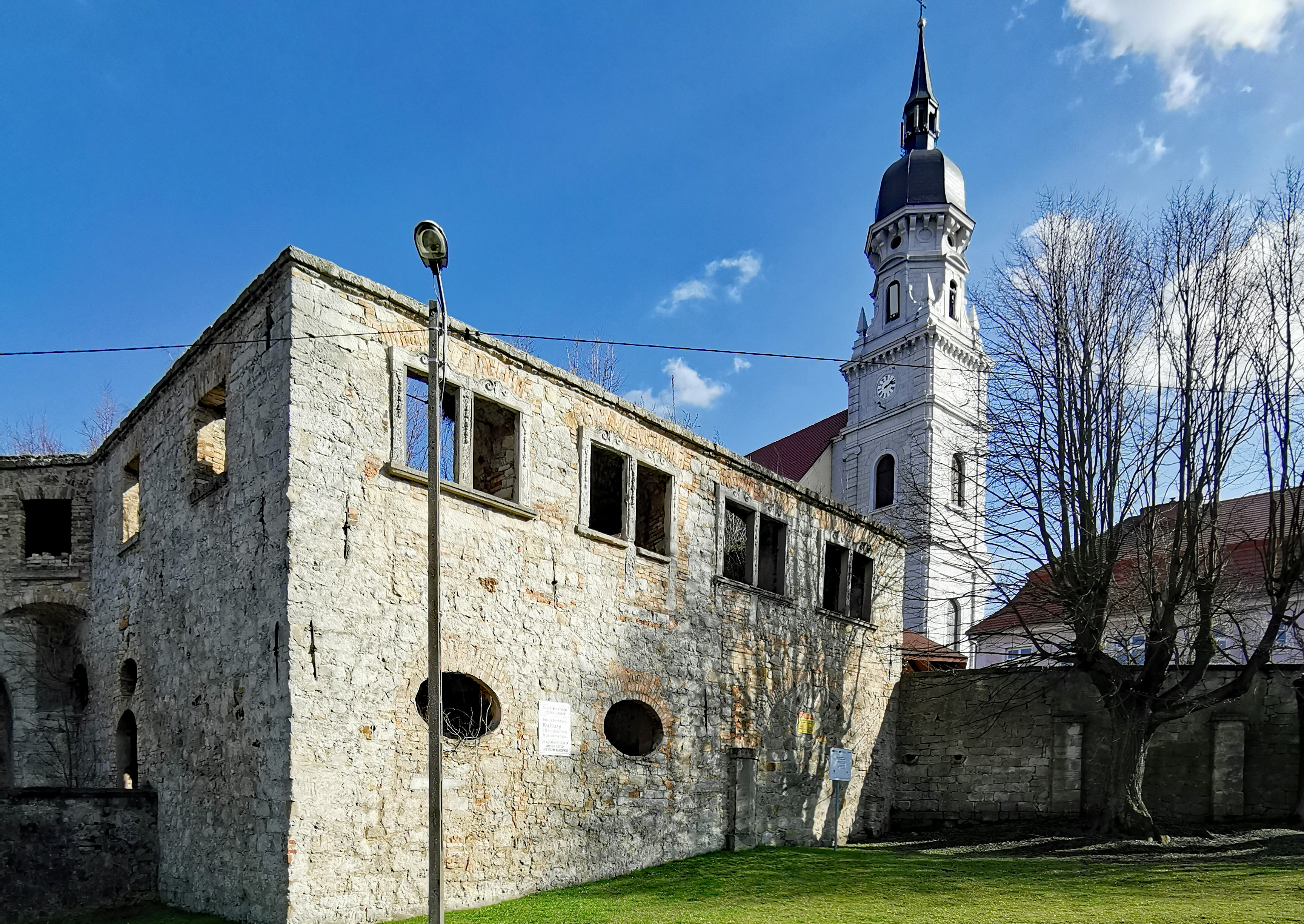 Nowogrodziec (Lower Silesian Voivodeship, Poland)